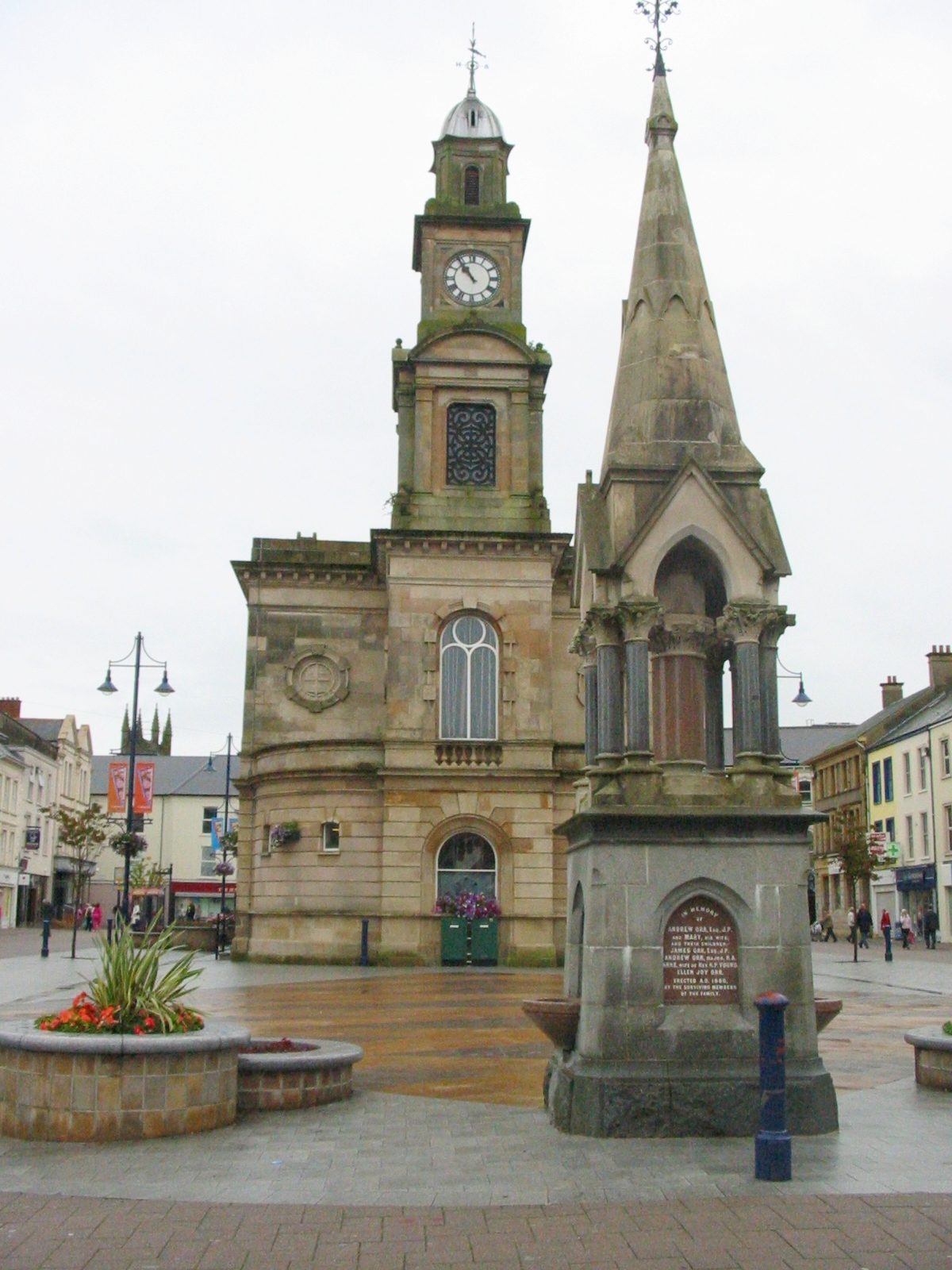 The Diamond, square in Coleraine, Northern Ireland